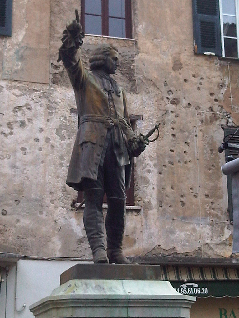 Ghjuvan petru Gaffori - Corti (Corsica)